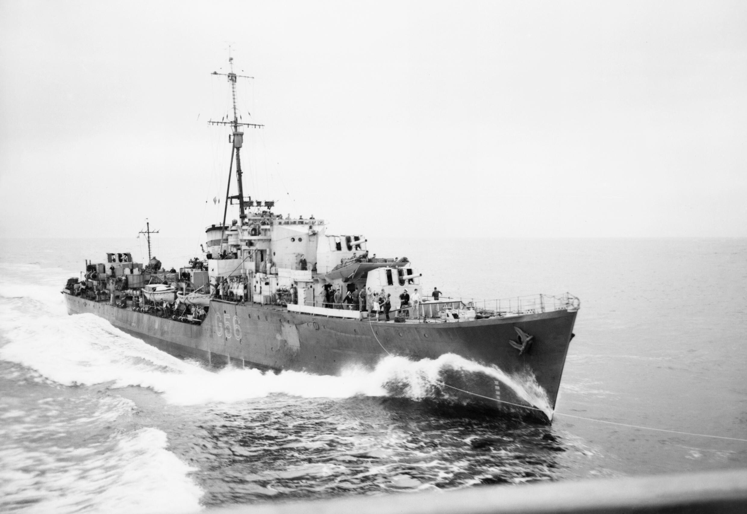 Photograph of British destroyer HMS Petard underway at speed. As seen from the aircraft carrier HMS Formidable.